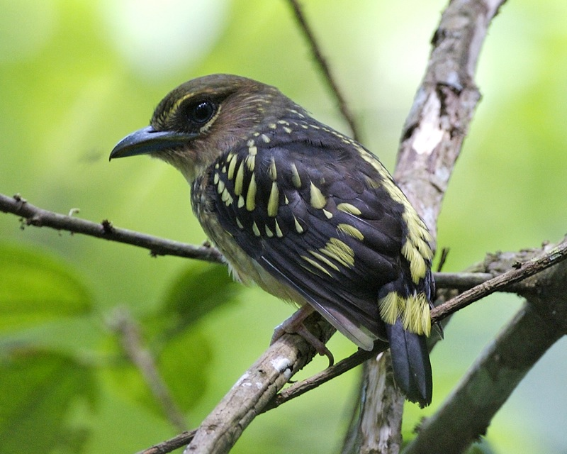 Banded Broadbill, Eurylaimus javanicus, race brookei, Poring Hot Springs, Sabah, Borneo, Malaysia, on 6th June 2009 Distribution: 690V7415